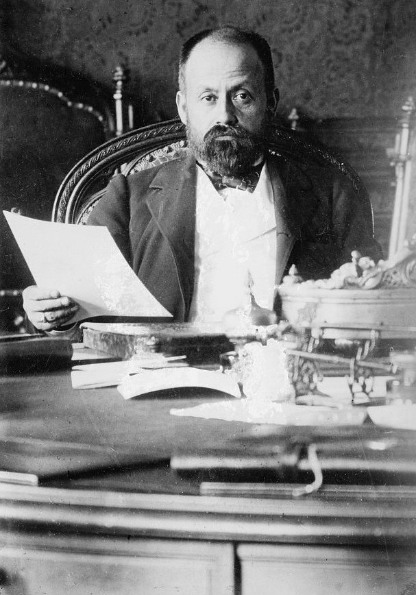 Cipriano Castro at the Presidential Office.